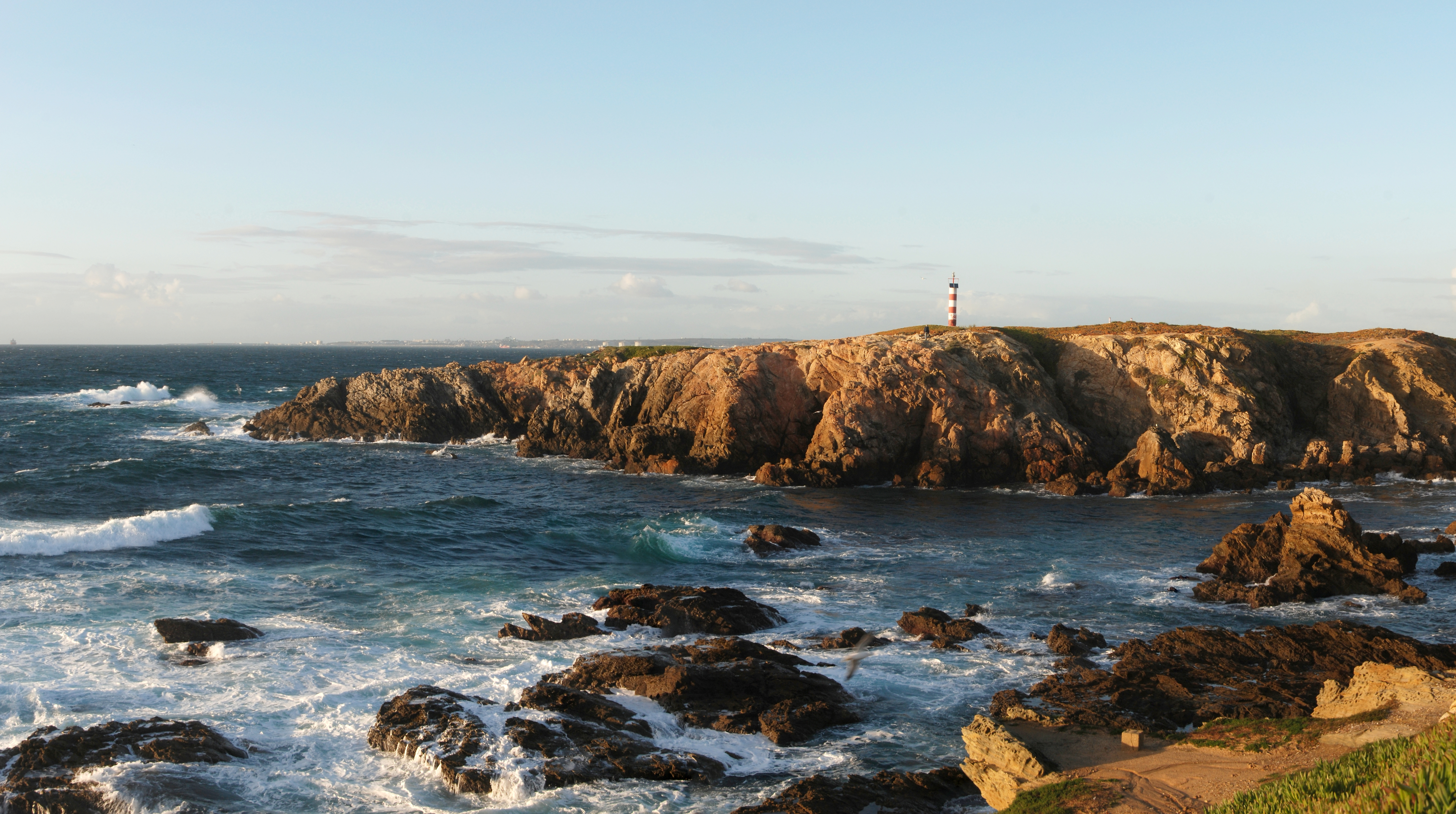 Porto Covo, Portugal. Detail of the coast, near the village.